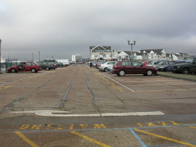 Town Quay, railway lines Redundant railway lines, seen from the southern tip of Town Quay, once a branch of the Southampton to Dorchester Railway; in the background, modern leisure and residential units.